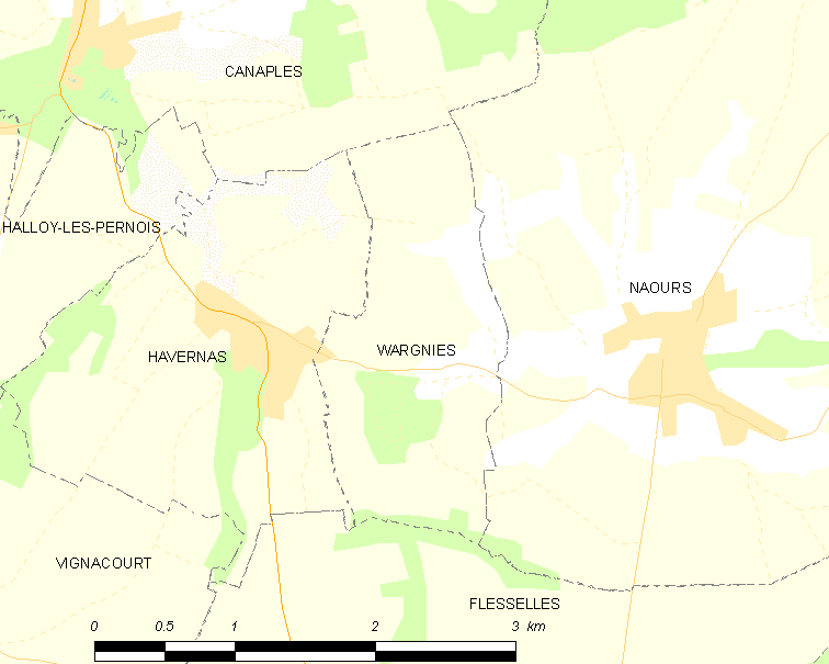 Map of French municipality Wargnies